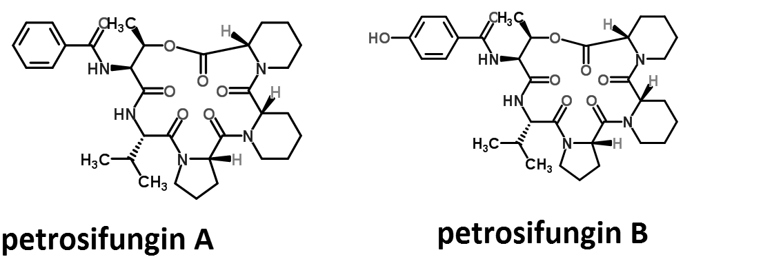 Petrosifungin A and B